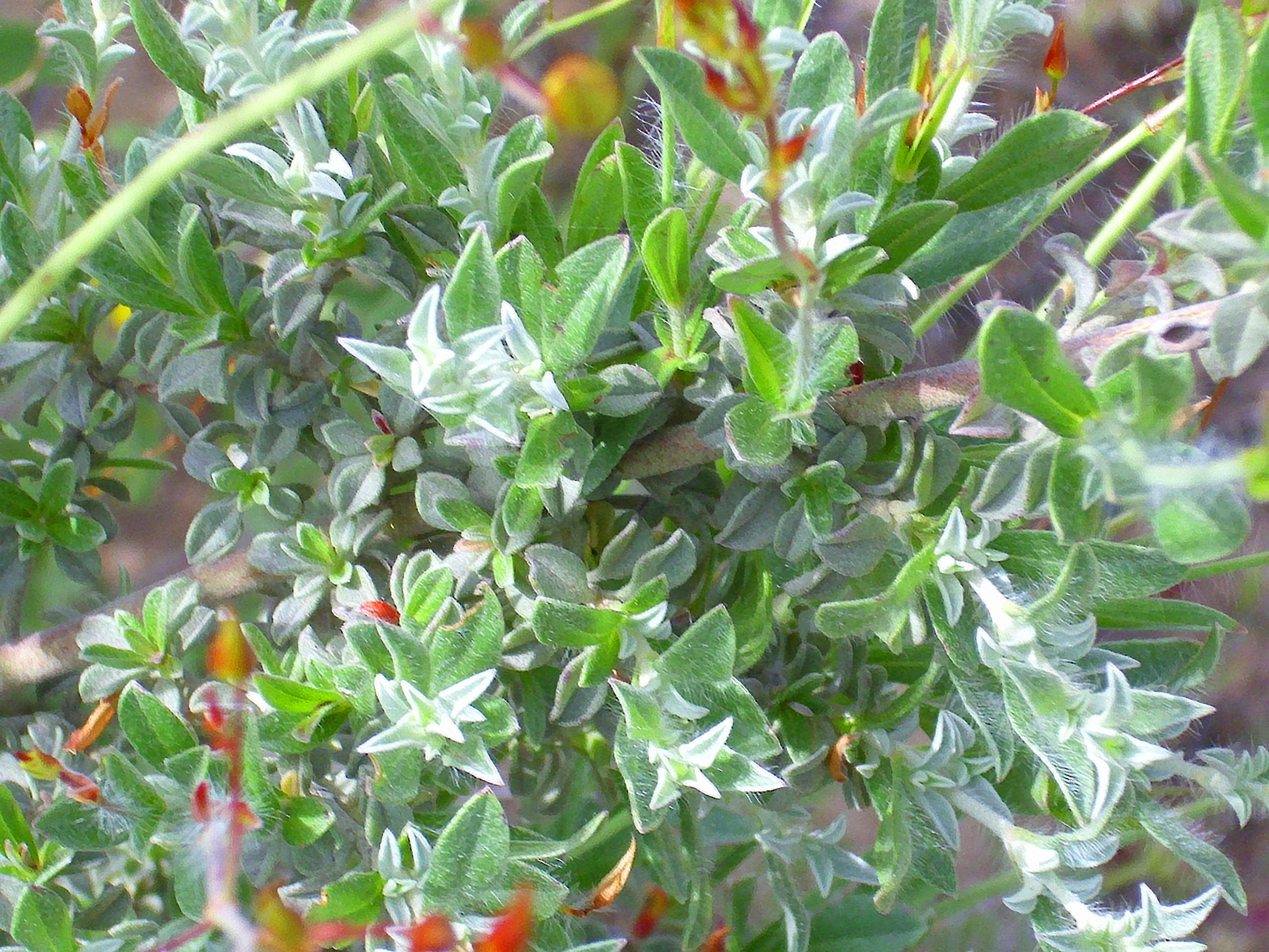 Halimium ocymoides leaves, Valderrepisa Sierra Madrona, Spain